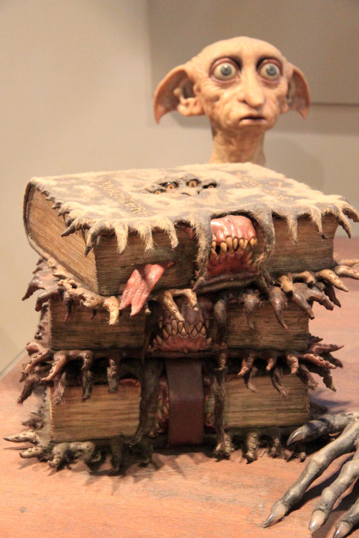 Warner Bros. Studio Tour London: The Making of Harry Potter.